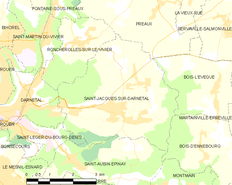 Map of French municipality Saint-Jacques-sur-Darnétal